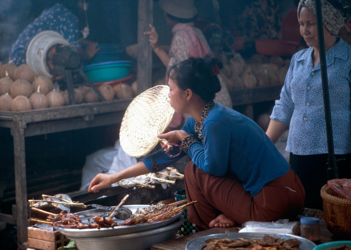 Preparing and selling food at a market in cambodia.